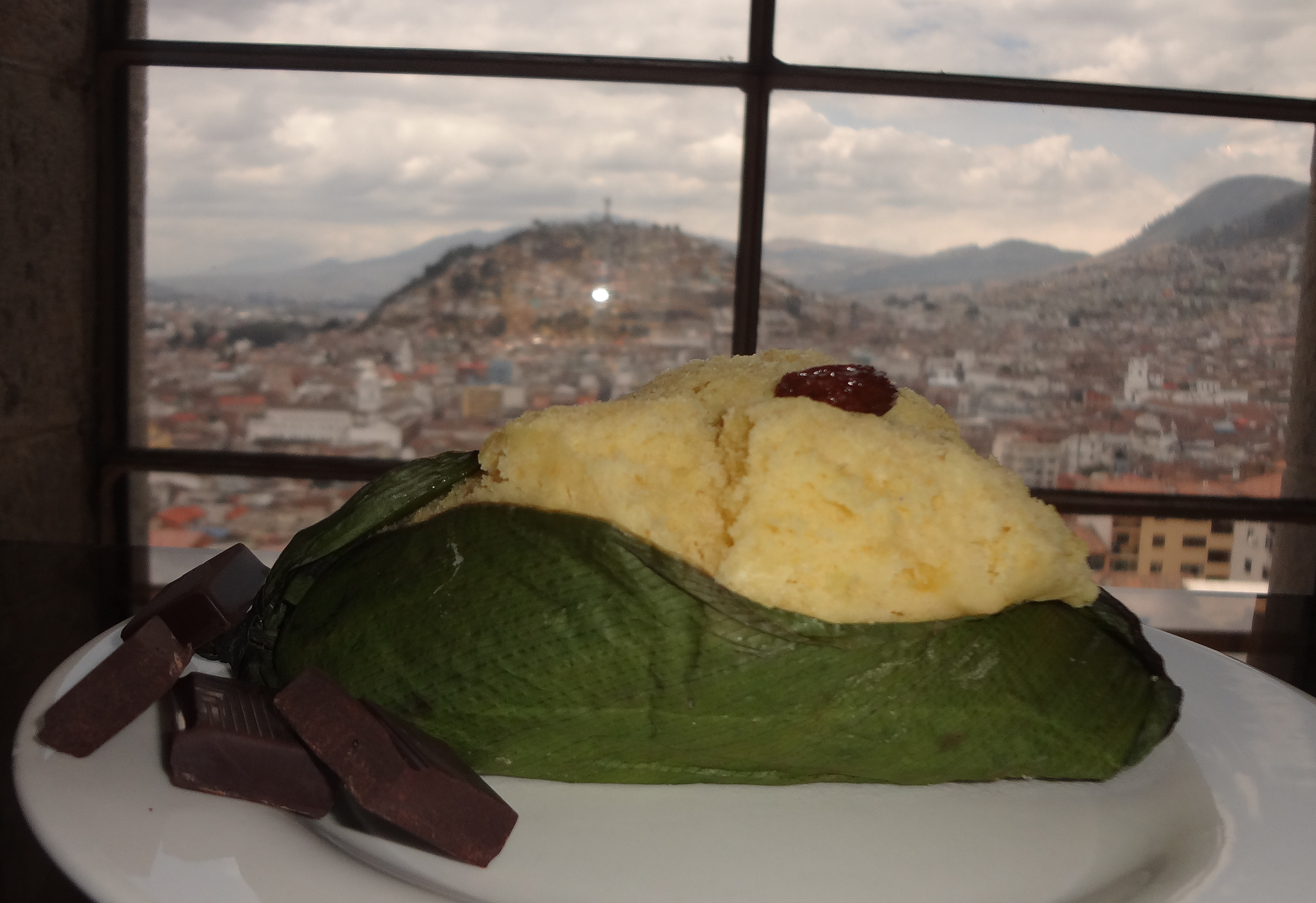 ˈQuimbolito and Ecuadorian Chocolate inside the cafe atop La Basílica del Voto Nacional, Quito. El Centro Histórico de Quito UNESCO World Heritage Site Centro histórico de Quito UNESCO World Cultural Heritage Site Historic Center of Quito Quito Colonial Center Centro histórico de Quito Photography by David Adam Kess